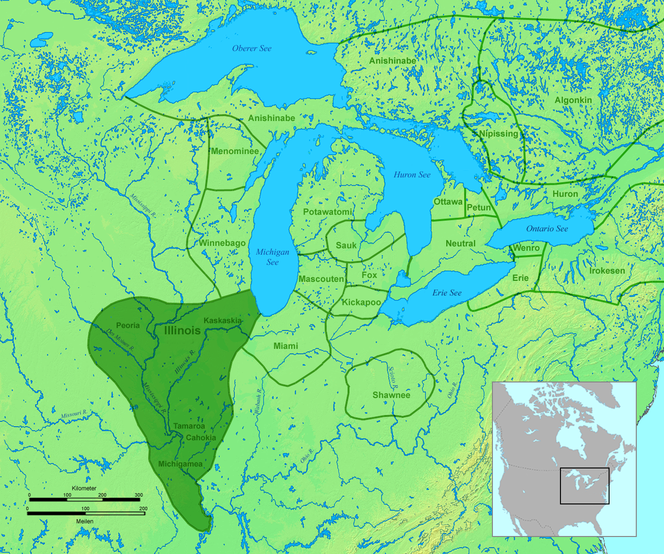 Tribal territory of Illinois probably before 1700